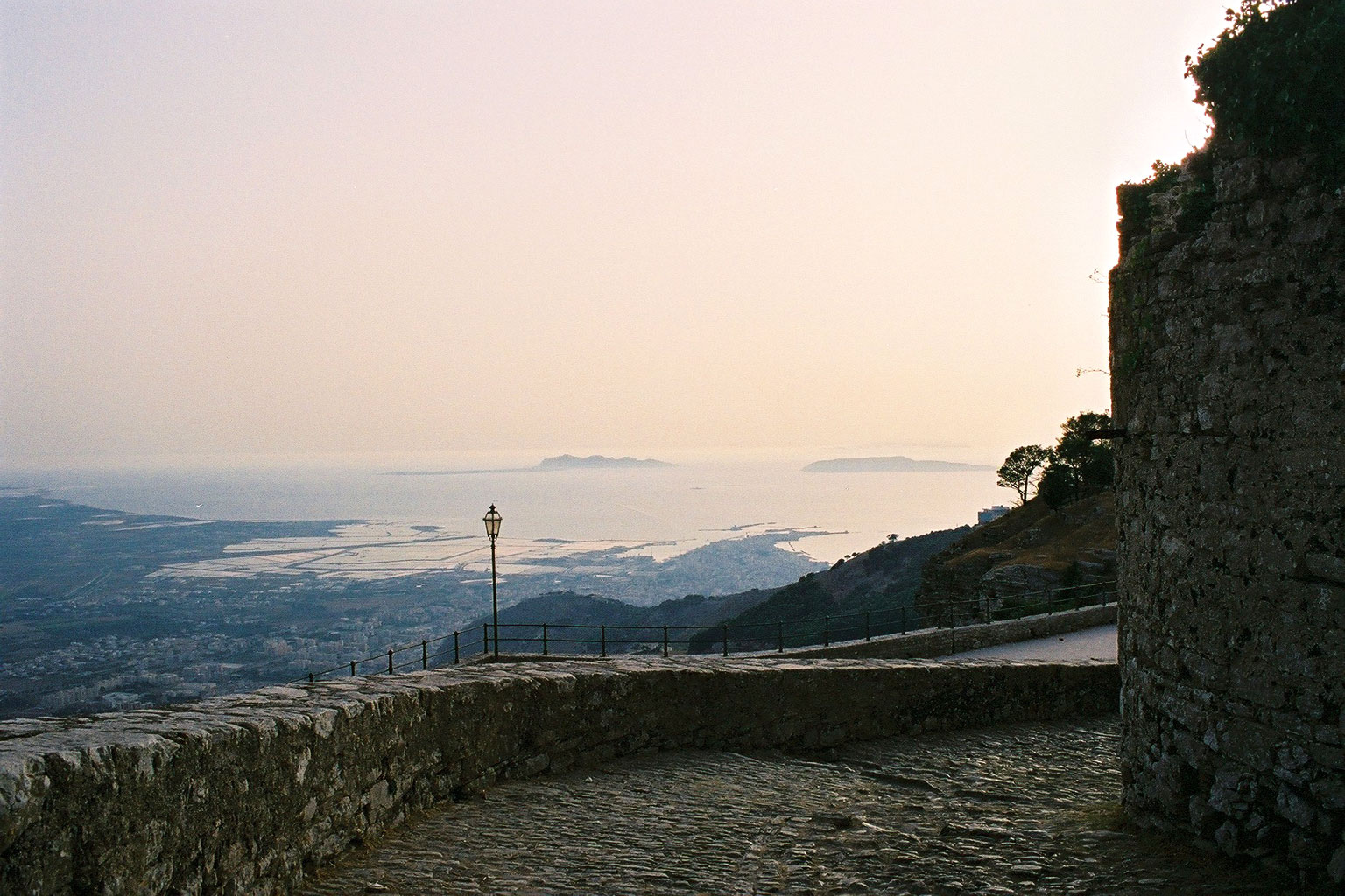 View from the Norman Castle of Erice to the city and salines of Trapani, with the islands Egadi